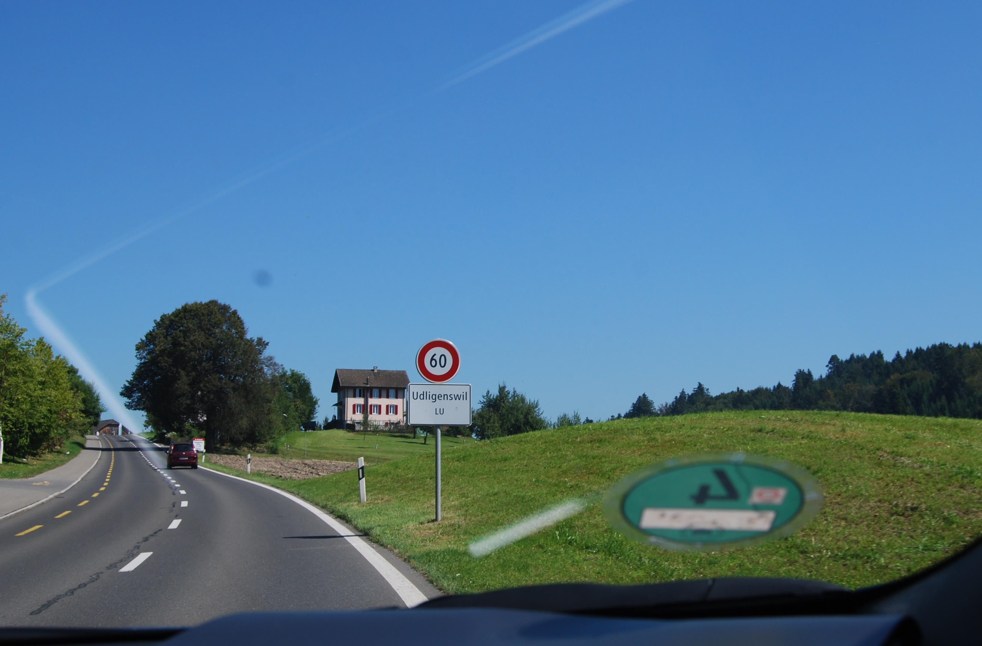 Udligenswil, canton of Lucerne, SwitzerlandEsperanto: Udligenswil, Kantono Lucerno, Svislando